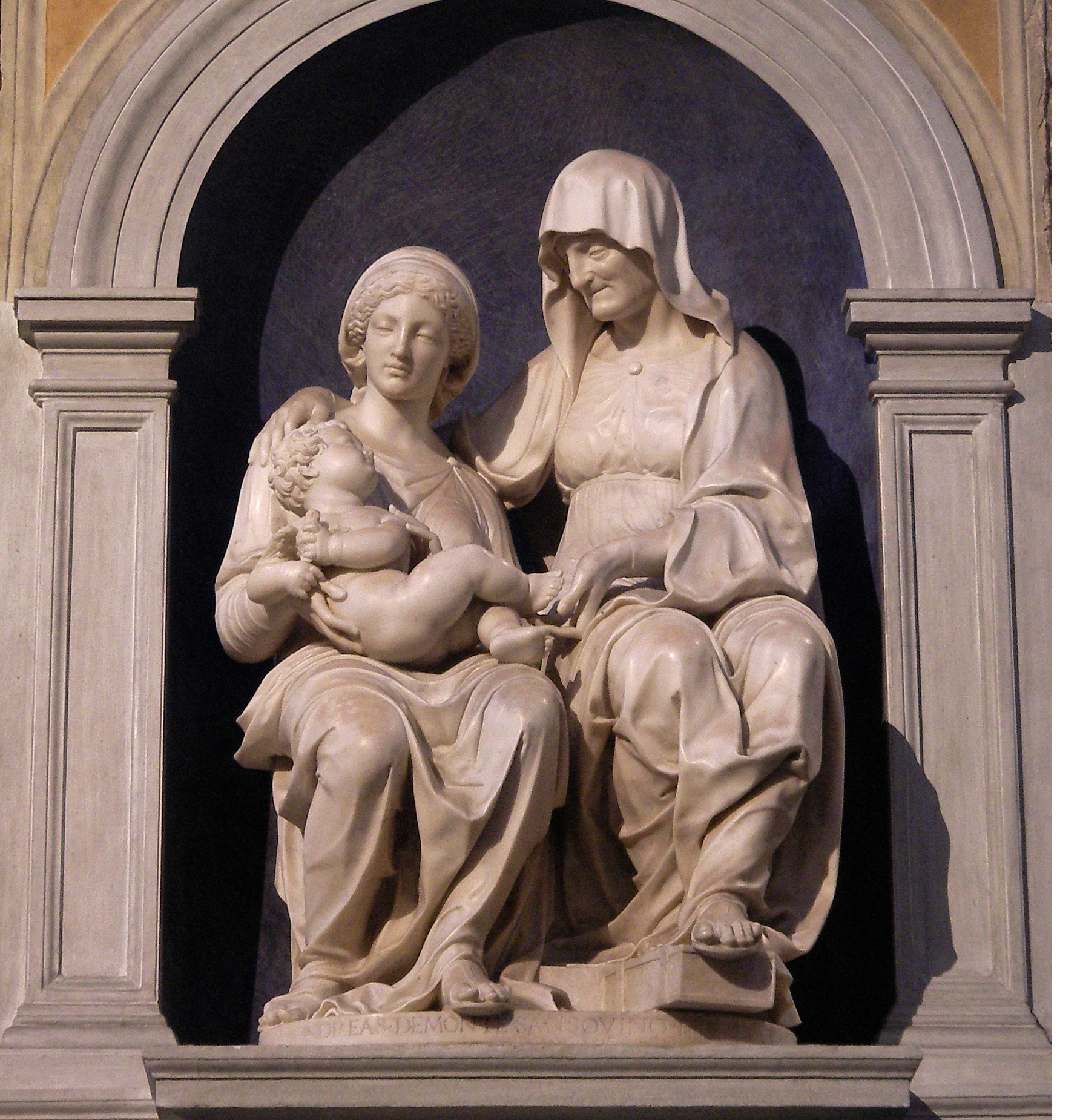 Madonna with Child and Anna by Andrea Sansovino, Church of Sant' Agostino, Rome (disregard the filename, this not a Pieta)